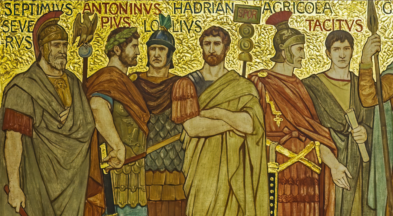 Roman generals and emperors closeup in the frieze of the Great Hall of the National Galleries Scotland by William Brassey Hole 1897